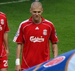 Martin Škrtel